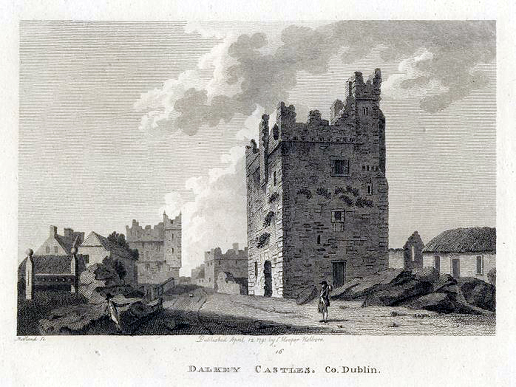 Dalkey Castles, 1791